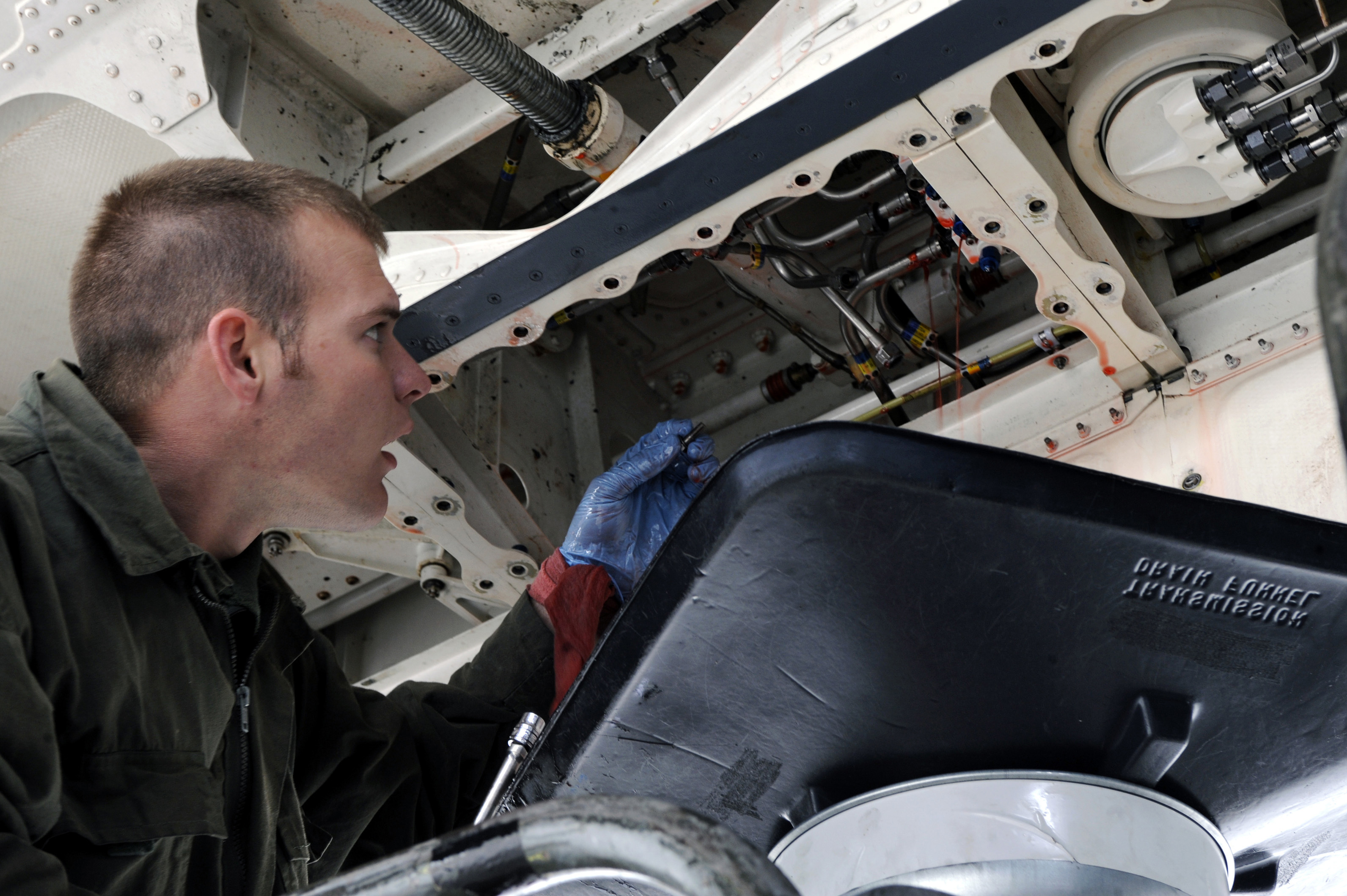 U.S. Air Force Senior Airman William Seaborne, a hydraulics mechanic with the 28th Aircraft Maintenance Squadron, removes a hydraulic manifold from a B-1B Lancer aircraft at Ellsworth Air Force Base, S.D., on April 15, 2009.